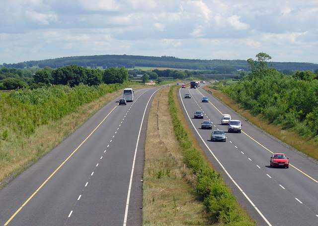 M7 Motorway near Ballybrittas, Co. Laois View towards Dublin.